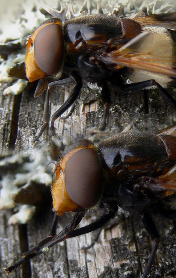 Description: Volucella pellucens is a hover-fly. It occurs in much of Europe, and across Asia to Japan.